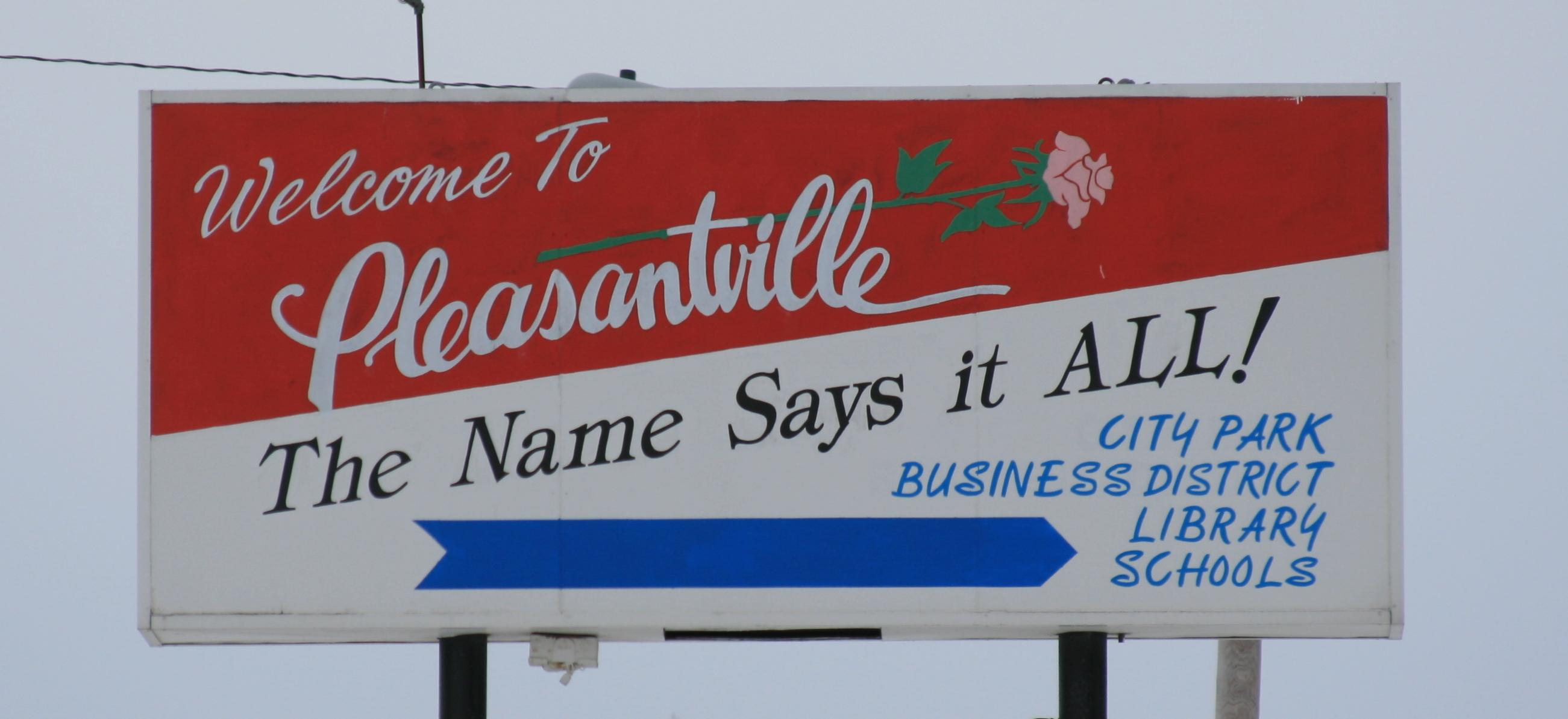 Sign for and located in Pleasantville, Iowa